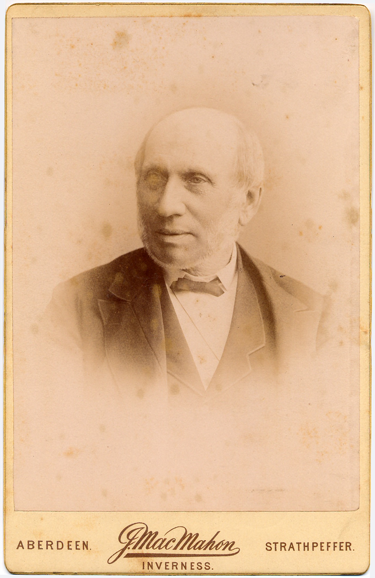 Formal Portrait of Sir John Struthers, shortly bearded, with bow tie, waistcoat and jacket, no hat, head and shoulders only, background faded out in darkroom, on stiff card